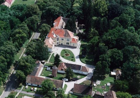 Mozsgó, Hungary, aerialphotography